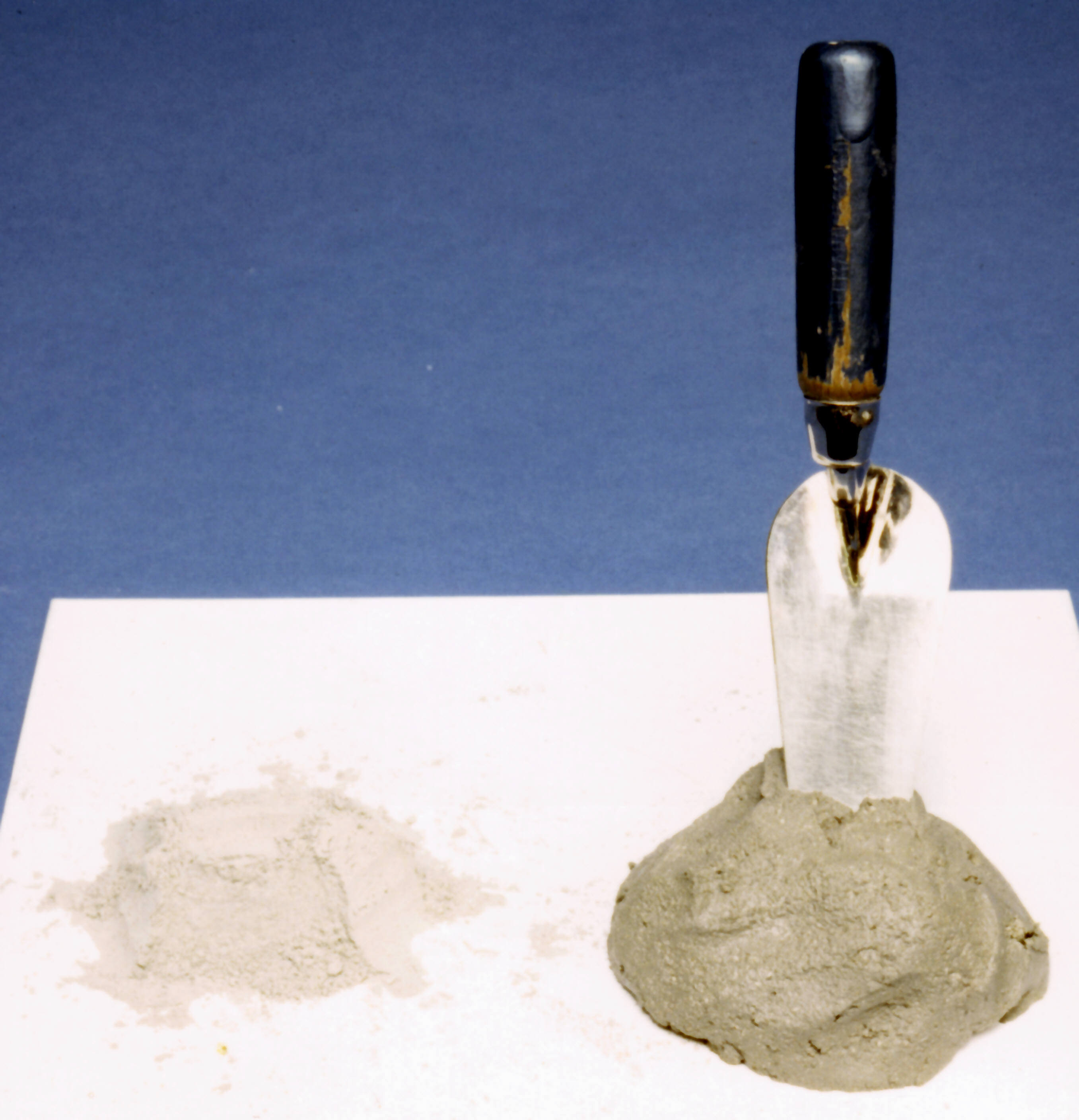 Firestop mortar, starts as a powder, is mixed with water, forms cement stone, dries hard, is often leavened with lightweight aggregates, such as perlite or vermiculite and pigmented to distinguish it from generic materials in an effort to prevent unlawful substitution and to enable verification of bounding.